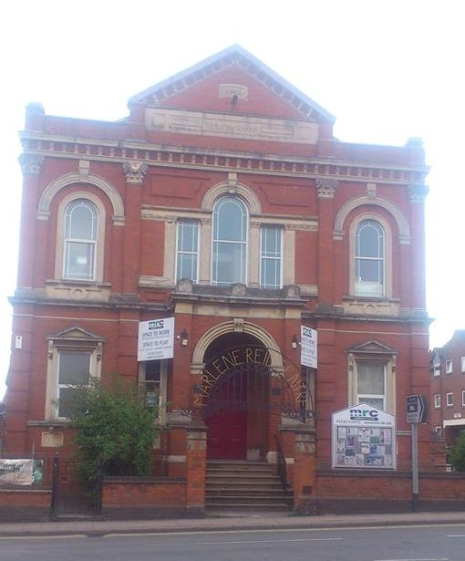 The former Coalville Wesleyan Methodist Chapel on Belvoir Road (built in 1881) - now the Marlene Reid Community Centre